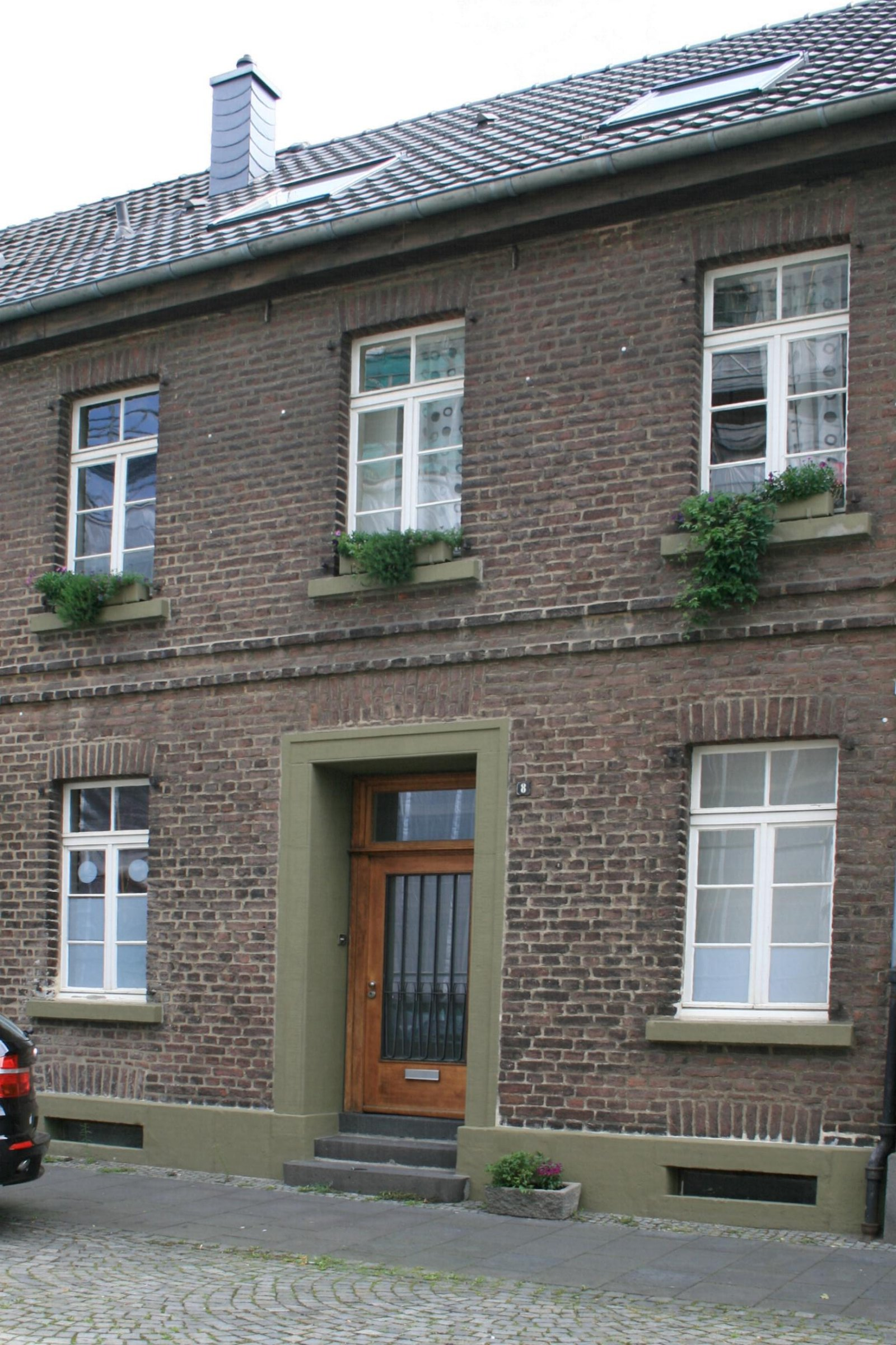 Cultural heritage monument No. K 089 in Mönchengladbach